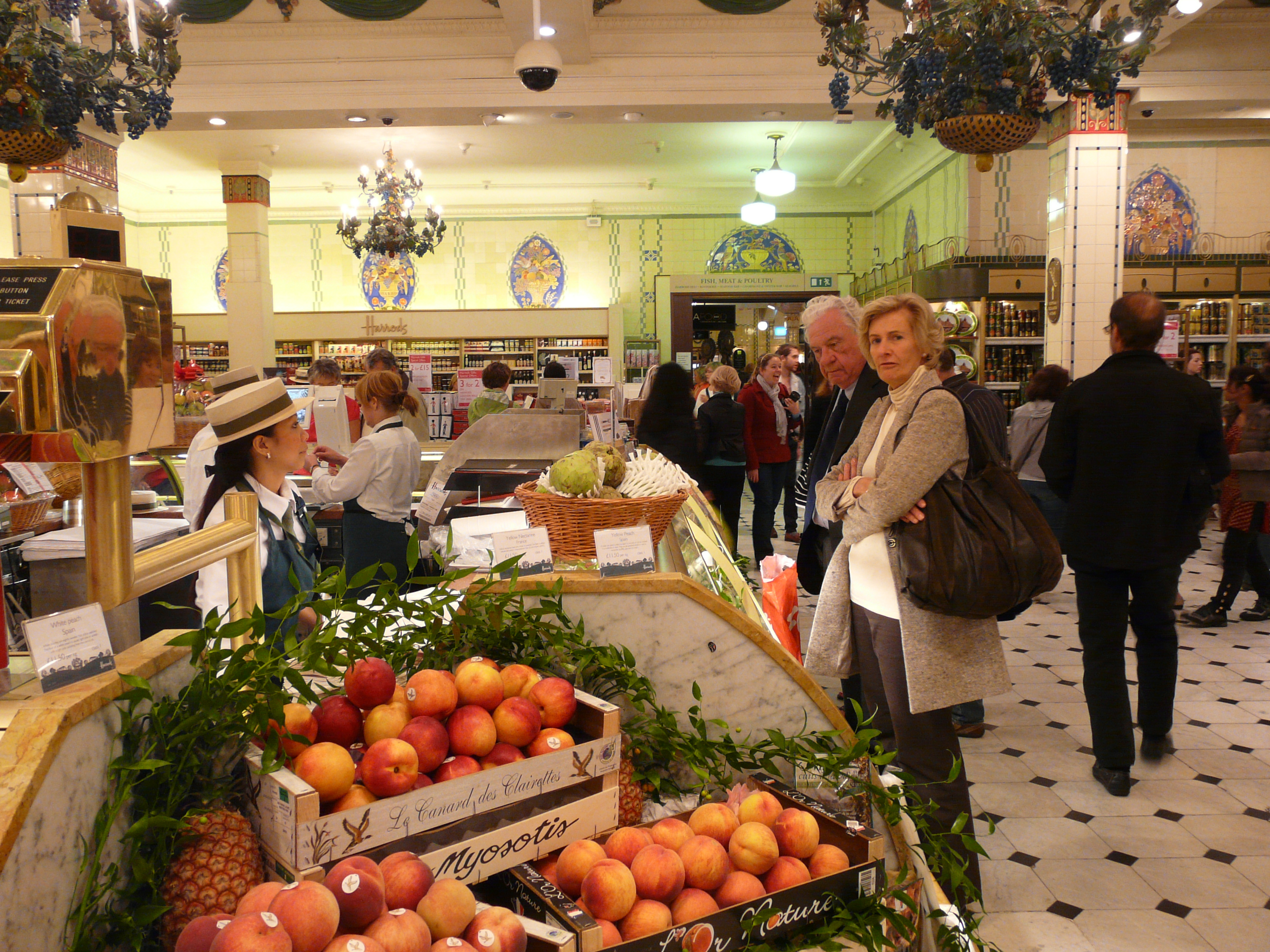 Live on the 22th of September, 2010. London, UK ©© Published under Creative Commons in the Metapolisz DVD line. All of the photos and vids in the Metapolisz DVD line are under Creative Commons and can be used even for commercial – for profit – purposes. Recommended Citation Derzsi Elekes Andor: Metapolisz DVD line